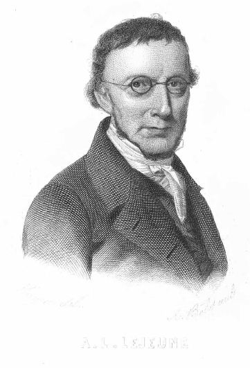 Belgian botanist Alexandre Louis Simon Lejeune (1779-1858)